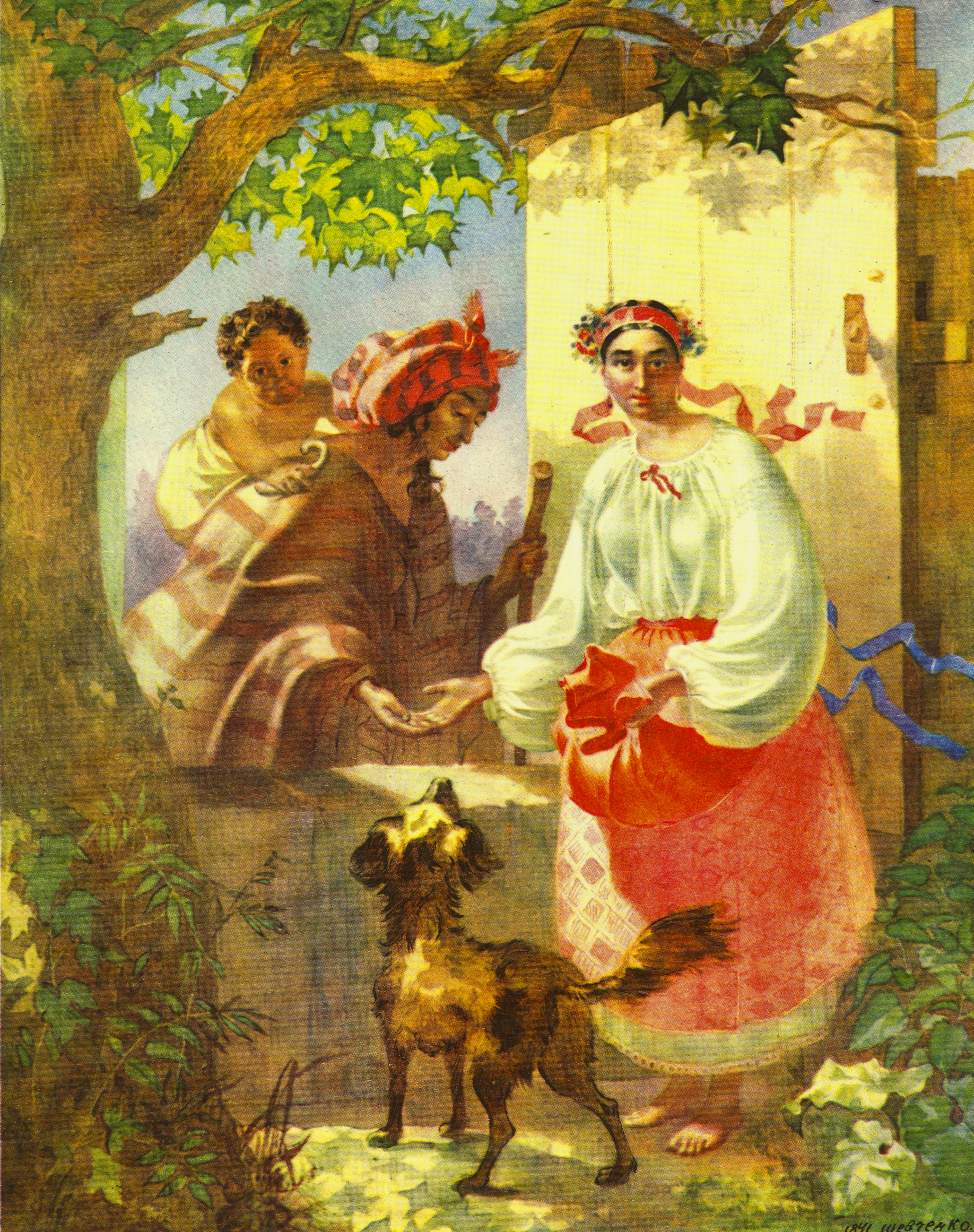 "Gypsy Fortune-Teller", a watercolor composition of 1841 was awarded a silver medal by the Council of the Academy of Arts. Т. Шевченко. Цыганка-ворожея. 1841. Национальный музей Т. Шевченко